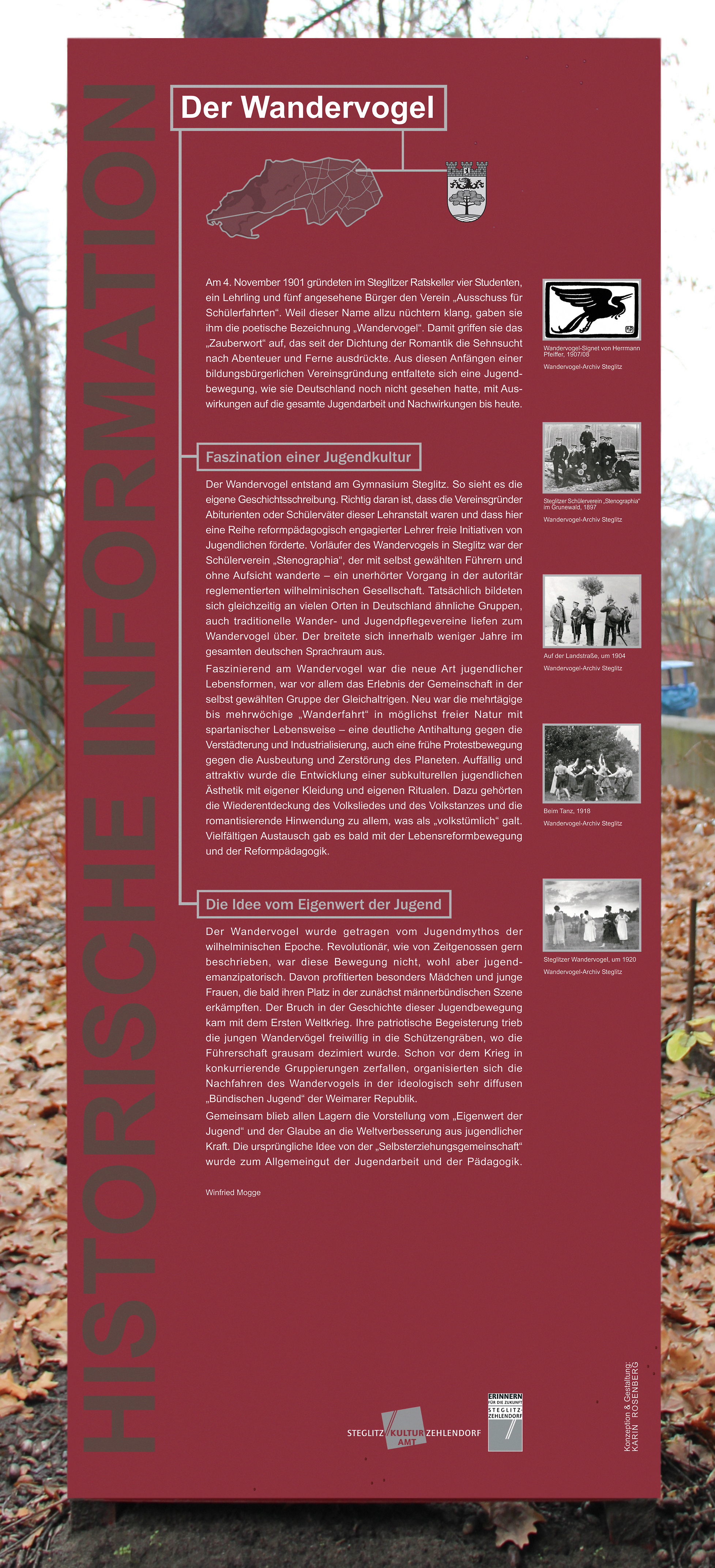 Memorial plaque, Wandervogel, Südendstraße 64, Berlin-Steglitz, Deutschland